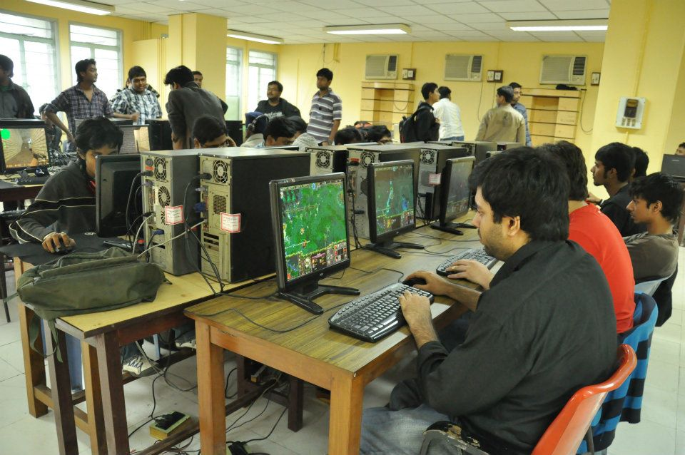 Ground Zero in Integration'12